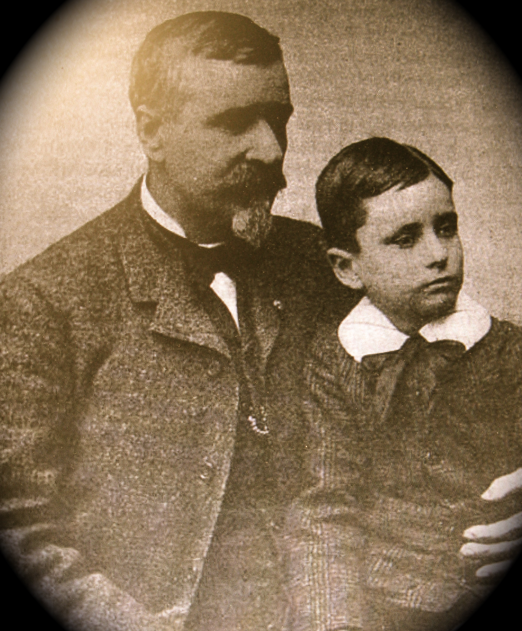 Photograph of Anson Mills, U. S. Army officer, inventor, and entrepreneur, and his eleven-year-old son, Anson Cassel Mills, 1882.